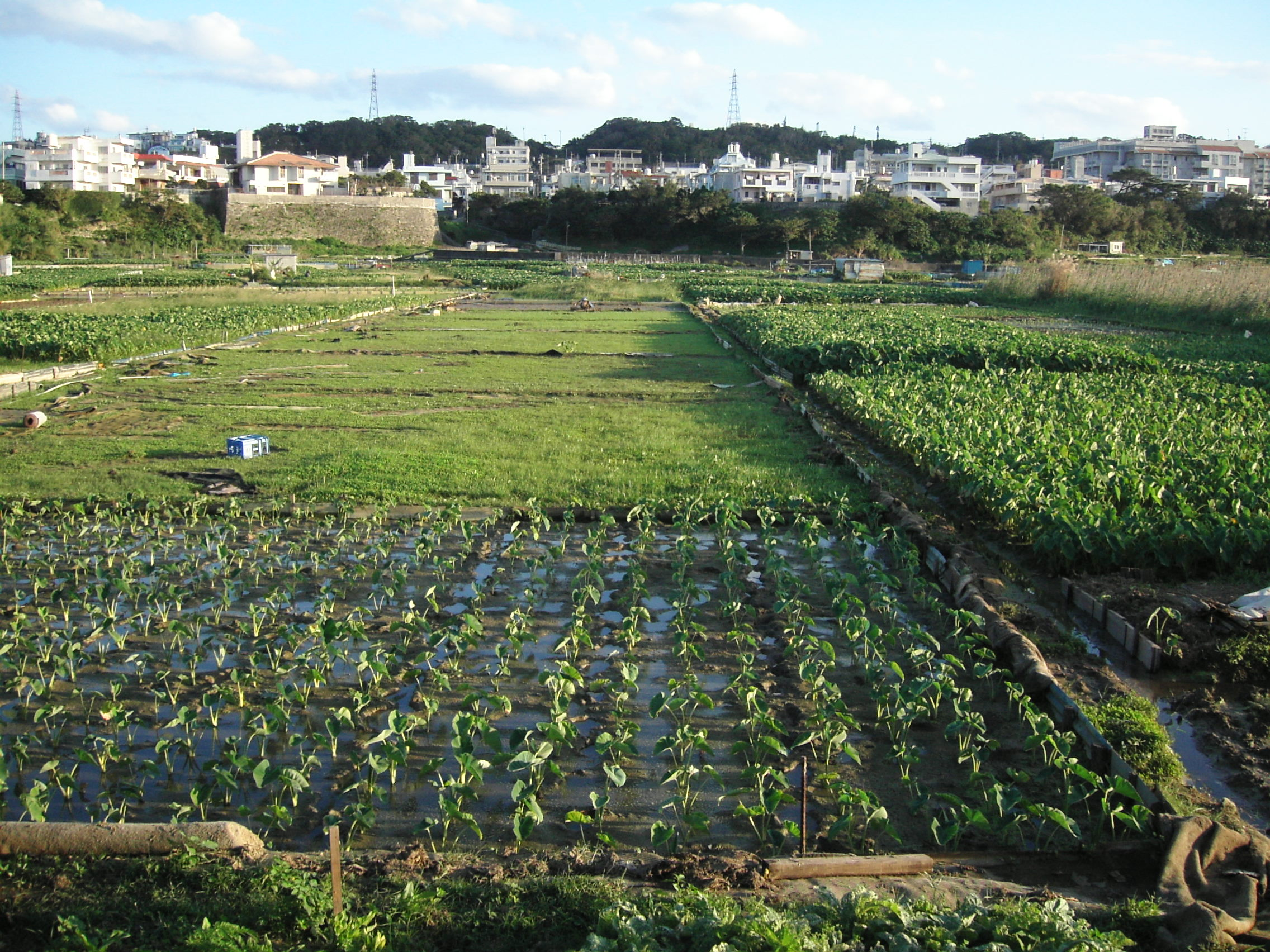 The field of taro in Oyama, Okinawa, Japan.(沖縄県宜野湾市の大山タイモ畑)